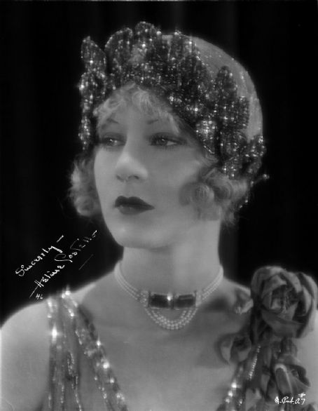 Autographed promotional image of American actress Helene Costello (1906–1957) during her "heyday" as a performer in the 1920s.